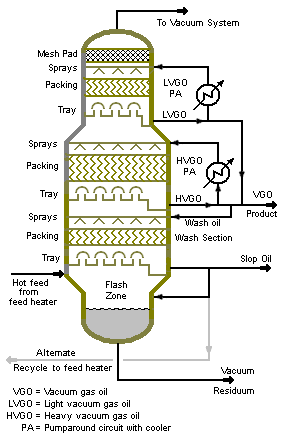 This is a schematic diagram of a typical vacuum distillation column in an oil refinery. I drew this myself using Microsoft's Paint program